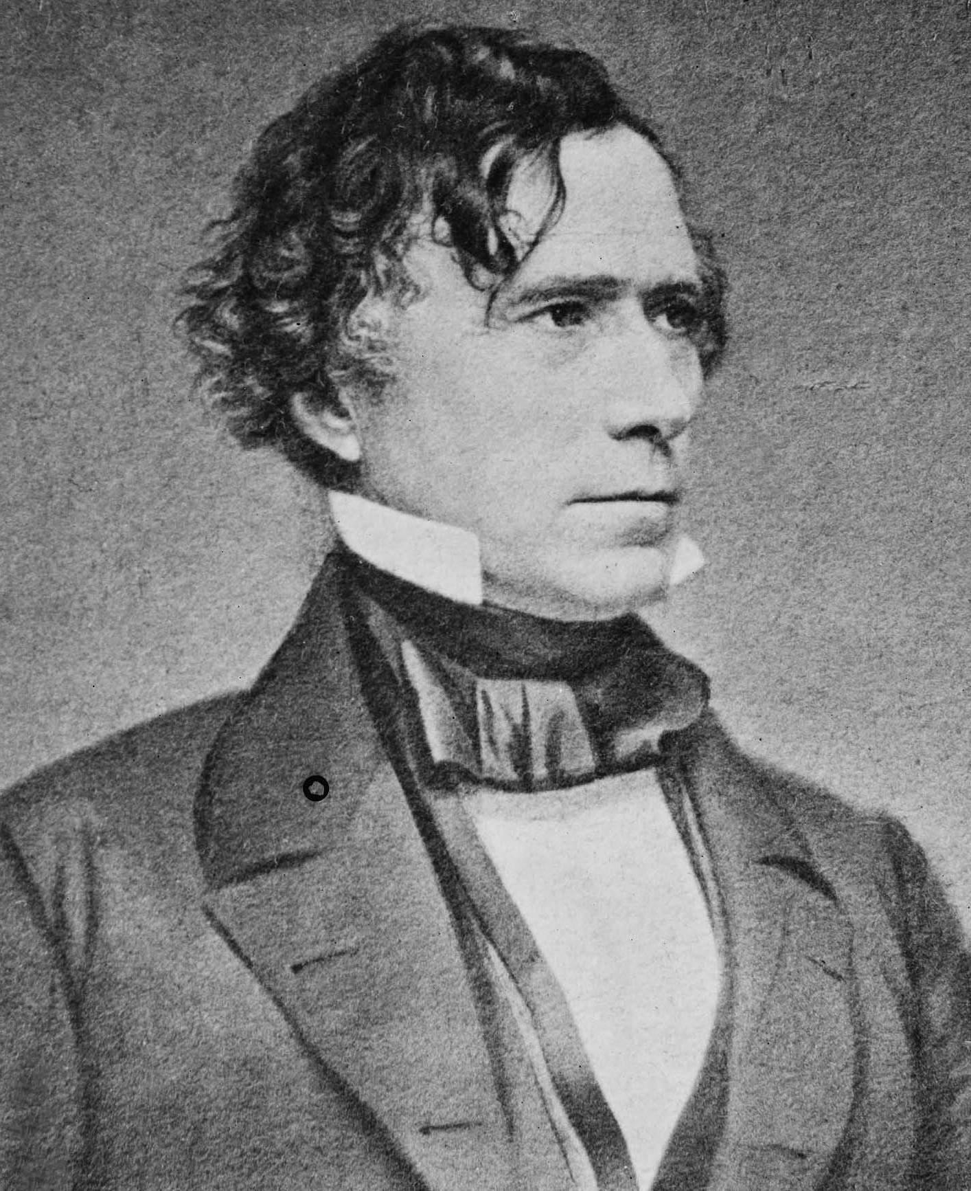 Franklin Pierce; 14th President of the United States (1853-1857)